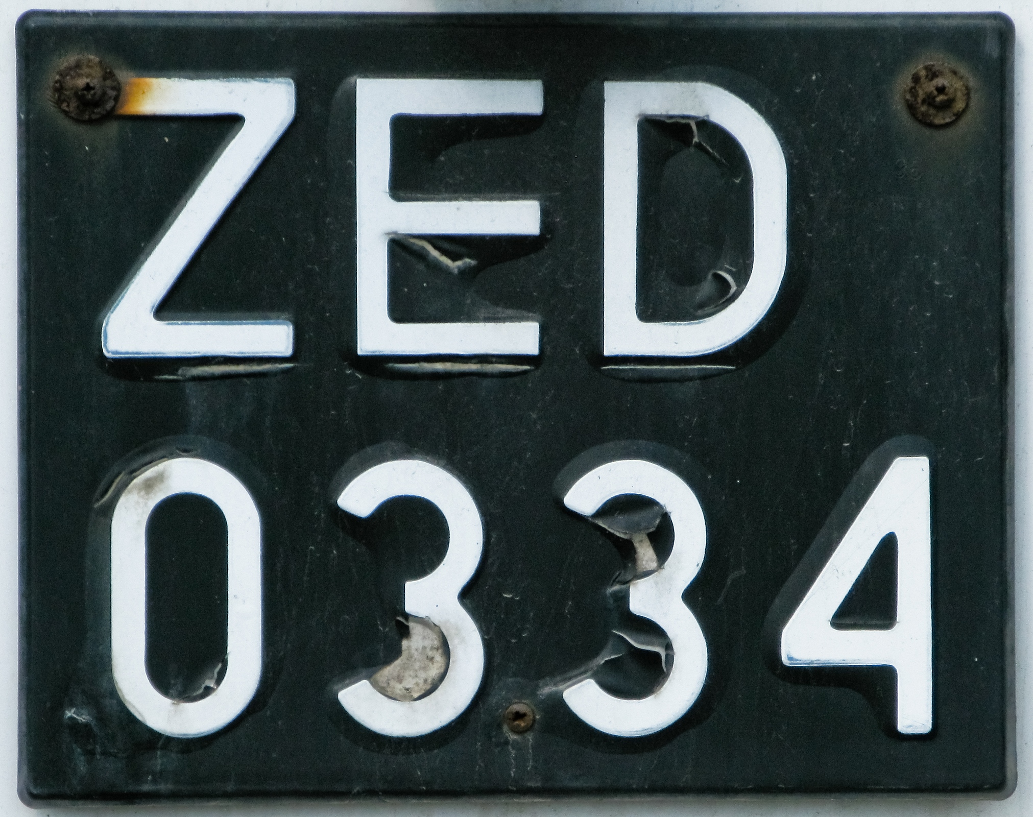 1976-2000 series polish double row car plate. ZE - zielonogórskie voivodeship D 0001-D 7000 - Zielona Góra city (1996.10-1998.02)